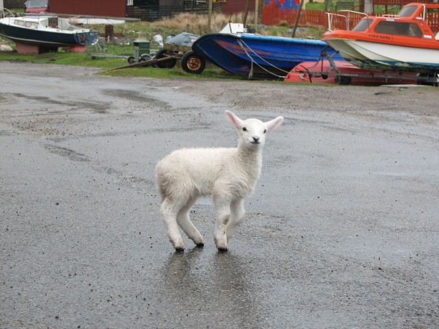 Lamb, Arinagour. Lamb trusts its luck with the traffic. Crossing the main road in Arinagour.